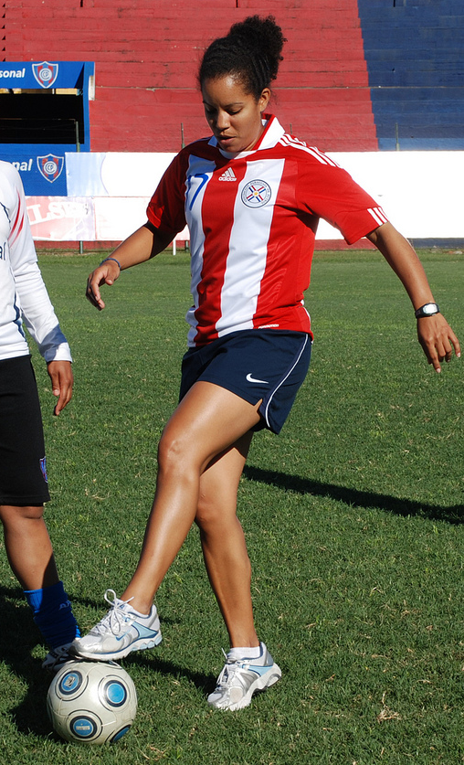 photo of professional women's soccer / football player, Danielle Slaton in Paraguay